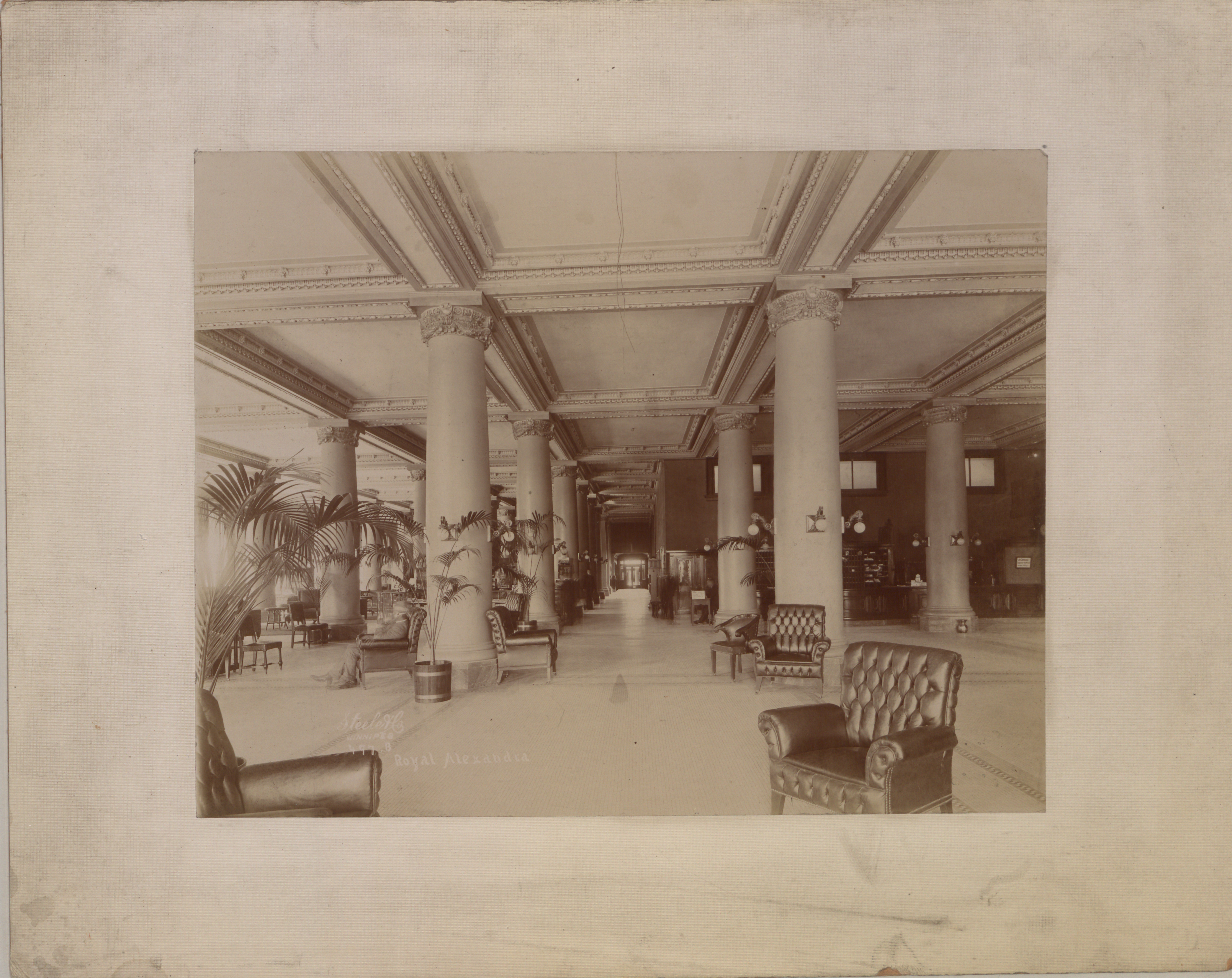 Royal Alexandra Rotunda. Photo 497 B.